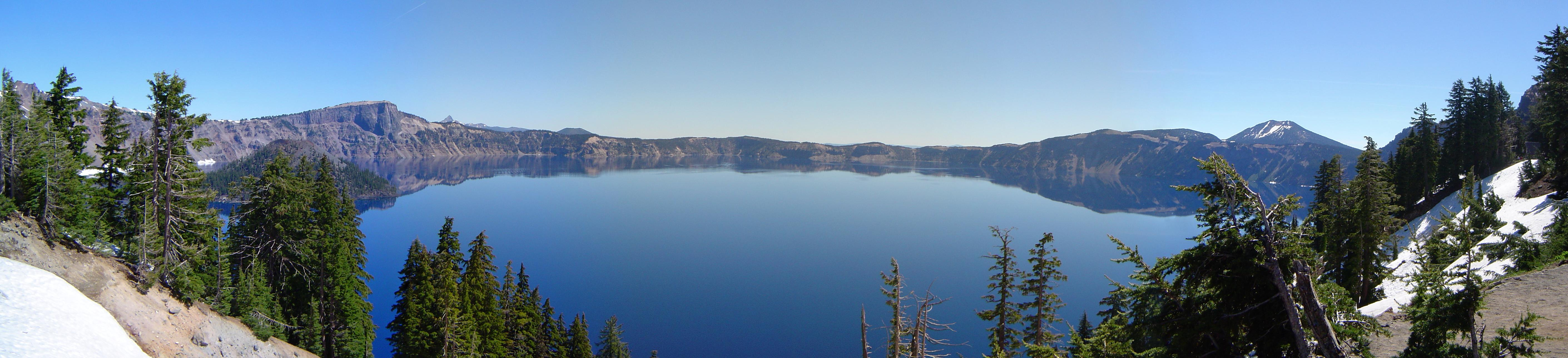 Crater Lake July 2005